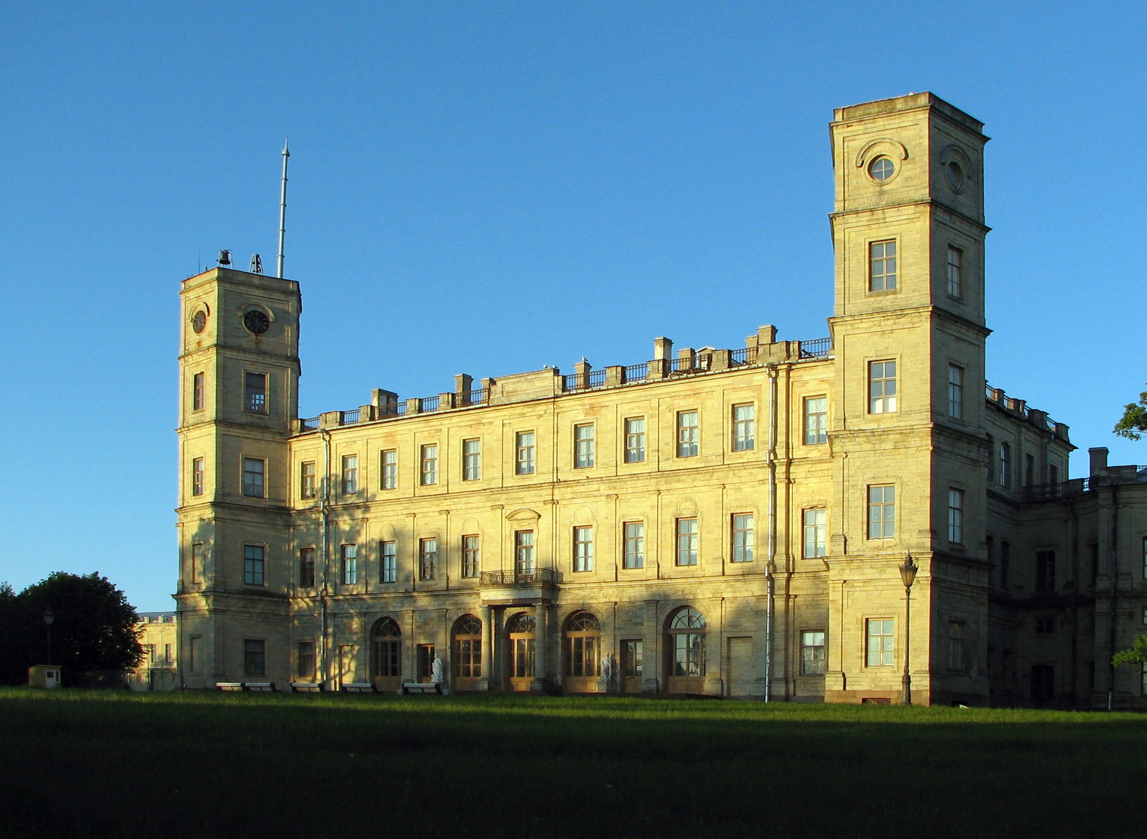 Gatchina palace. North view